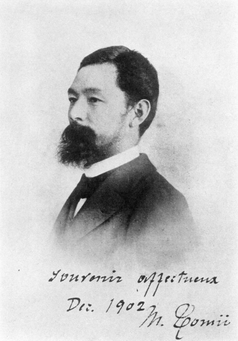 Tomii Masaakira (taken in 1897 when he revisiting Paris).